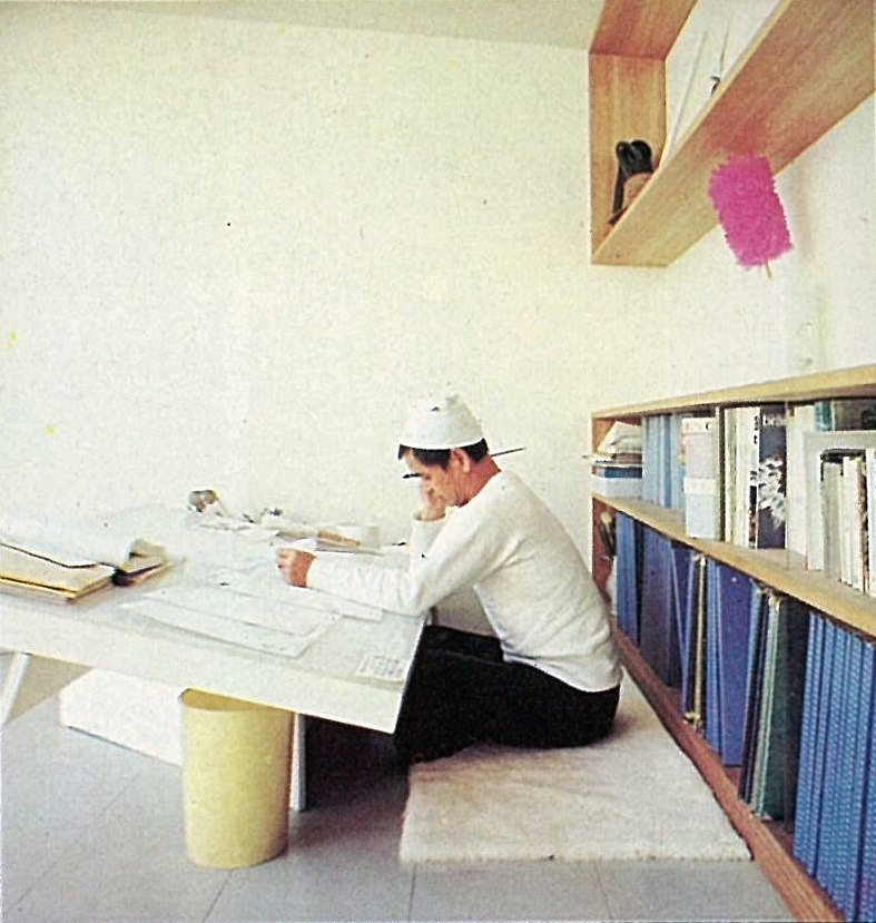 Seiroku Otsuka at home atelier in 1965